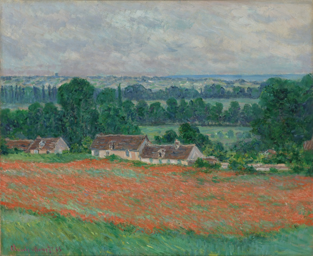 85.499; Claude Monet, French, 1840 - 1926 (Artist); Field of Poppies, Giverny; 1885; oil on canvas; Unframed: 23 5/8 × 28 3/4 in. (60.01 × 73.03 cm)Framed: 34 1/2 × 39 1/2 in. (87.63 × 100.33 cm); Collection of Mr. and Mrs. Paul Mellon; Virginia Museum of Fine Arts, Richmond